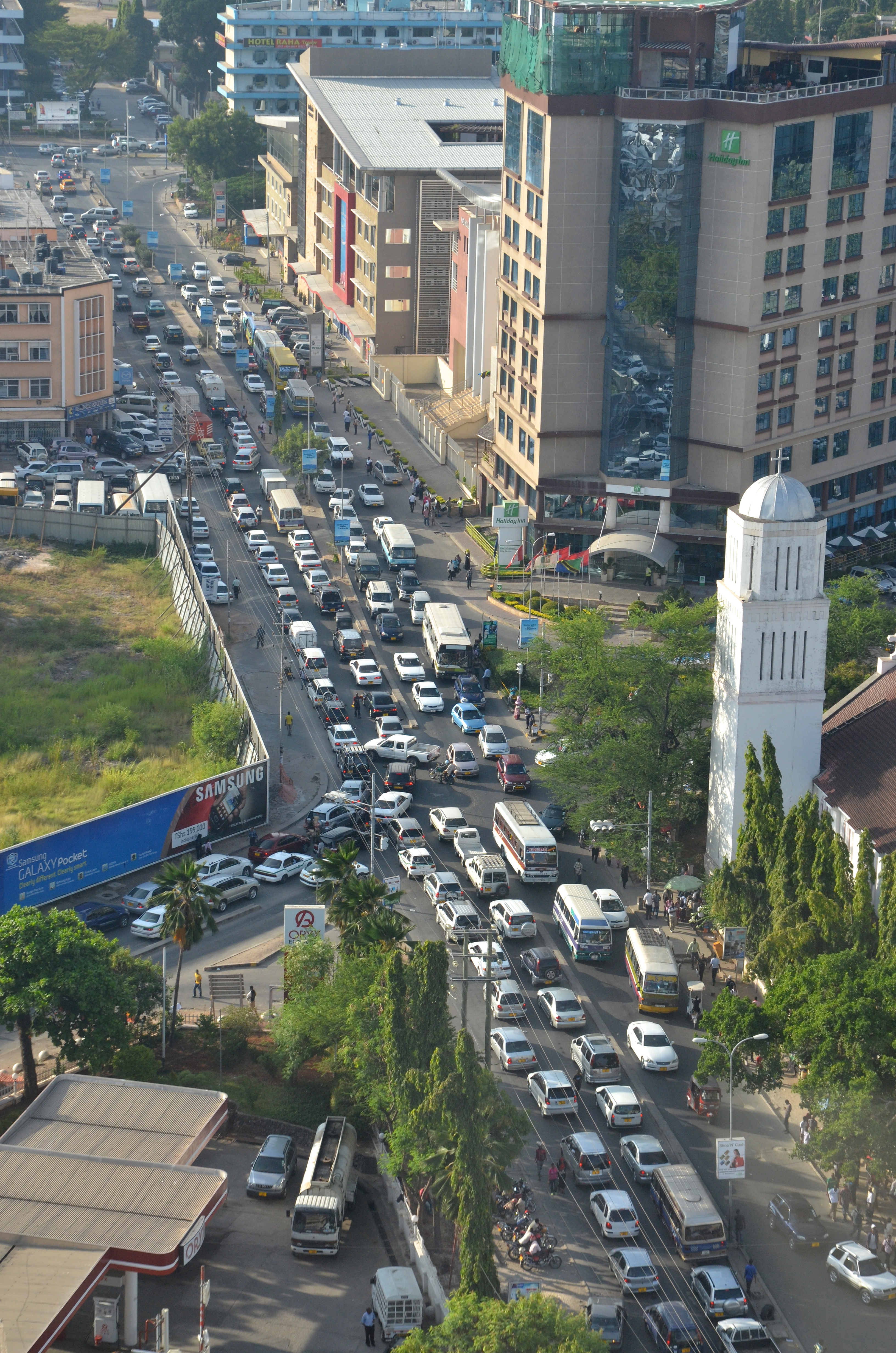 Traffic on the Maktaba Street/Azikiwe Street in Dar es Salaam. The white tower on the left belongs to the St. Alban Angican Church.